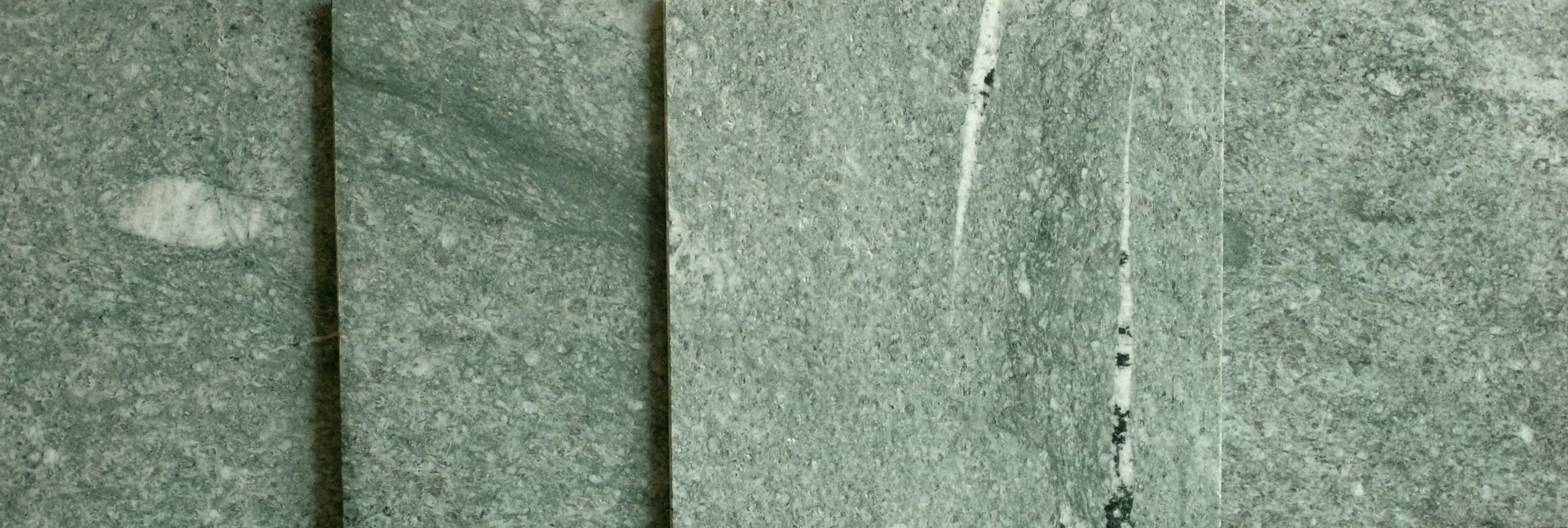 Gneiss Andeer Green (Canton Graubünden, Switzerland)